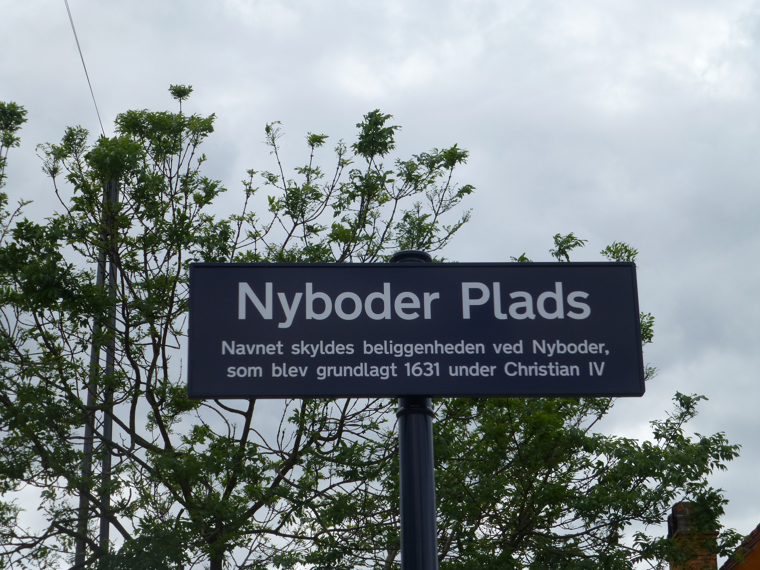 The square Nyboder Plads in the area Nyboder in Indre By in Copenhagen.